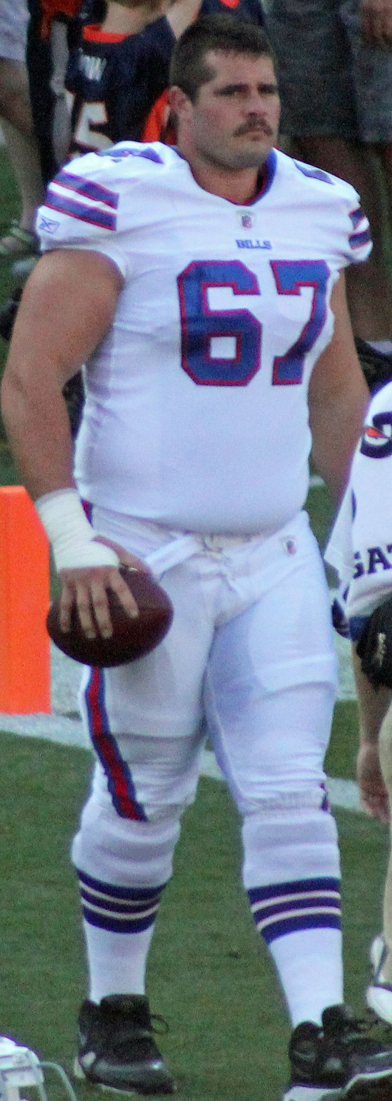 Andy Levitre, a player on the National Football League.